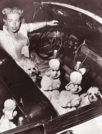 Phyllis Morris sitting in car with poodle lamps